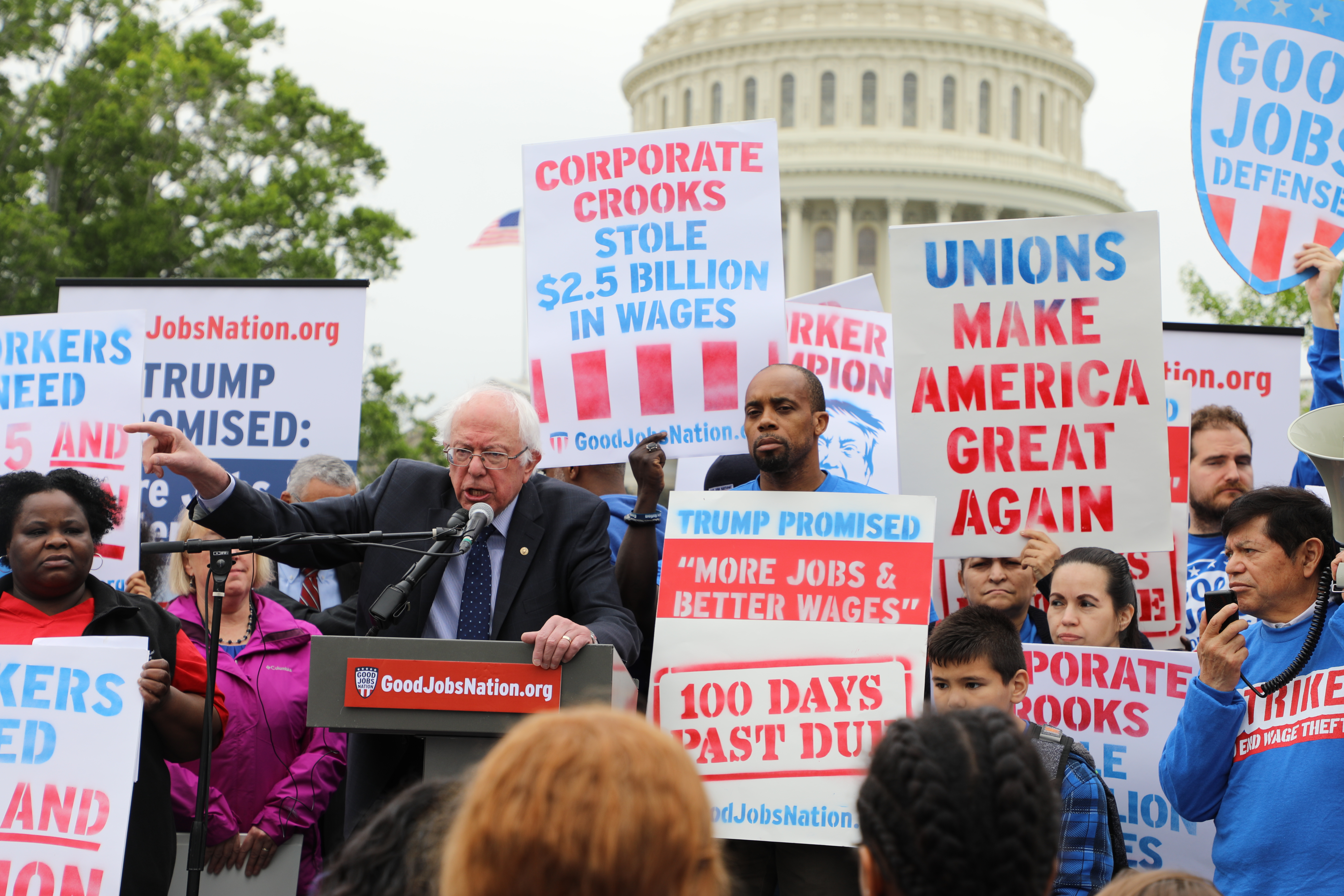 Days after President Donald Trump released a budget that would slash support for working families, Sens. Bernie Sanders (I-Vt.), Patty Murray (D-Wash.) and Chuck Schumer (D-N.Y.), joined by 28 of their colleagues in the Senate, introduced legislation to raise the federal minimum wage to $15 an hour. Reps. Bobby Scott (D-Va.) and Keith Ellison (D-Minn.) introduced a companion bill Thursday with 152 cosponsors in the House. “Just a few short years ago, we were told that raising the minimum wage to $15 an hour was ‘radical.’ But a grassroots movement of millions of workers throughout this country refused to take ‘no’ for an answer,” Sanders said. “Our job in the wealthiest country in the history of the world is to make sure that every worker has at least a modest and decent standard of living.” The Raise the Wage Act would raise the minimum wage to $15 per hour by 2024 and would be indexed to median wage growth thereafter. This raise would increase the minimum wage higher than its 1968 peak. The federal minimum wage has not been raised since 2009.